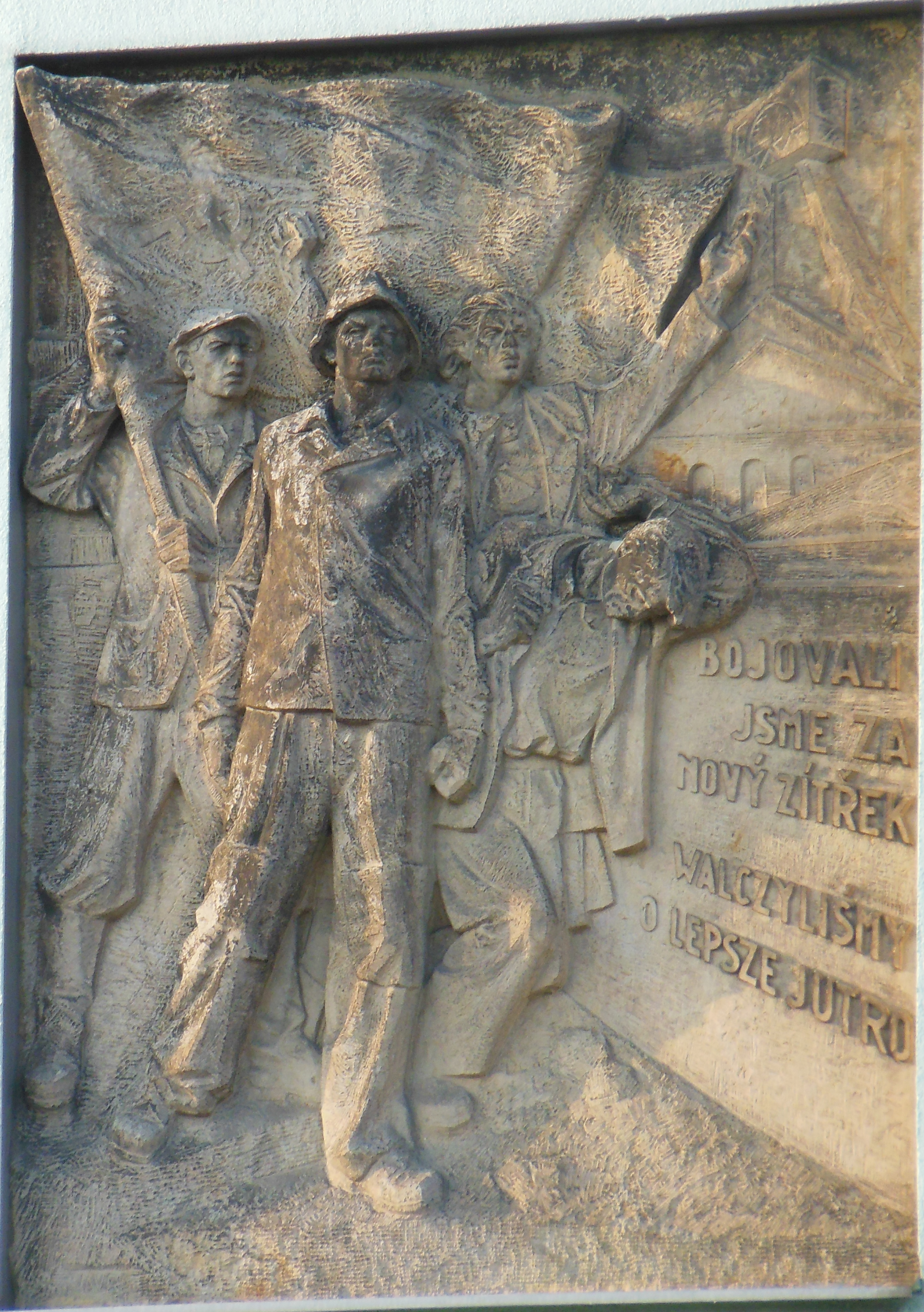 Plaque of miner strike in Horní Suchá in 1932. The miner Wladyslaw Karwiński was shot dead during the strike by police. Horní Suchá, Czech Republic